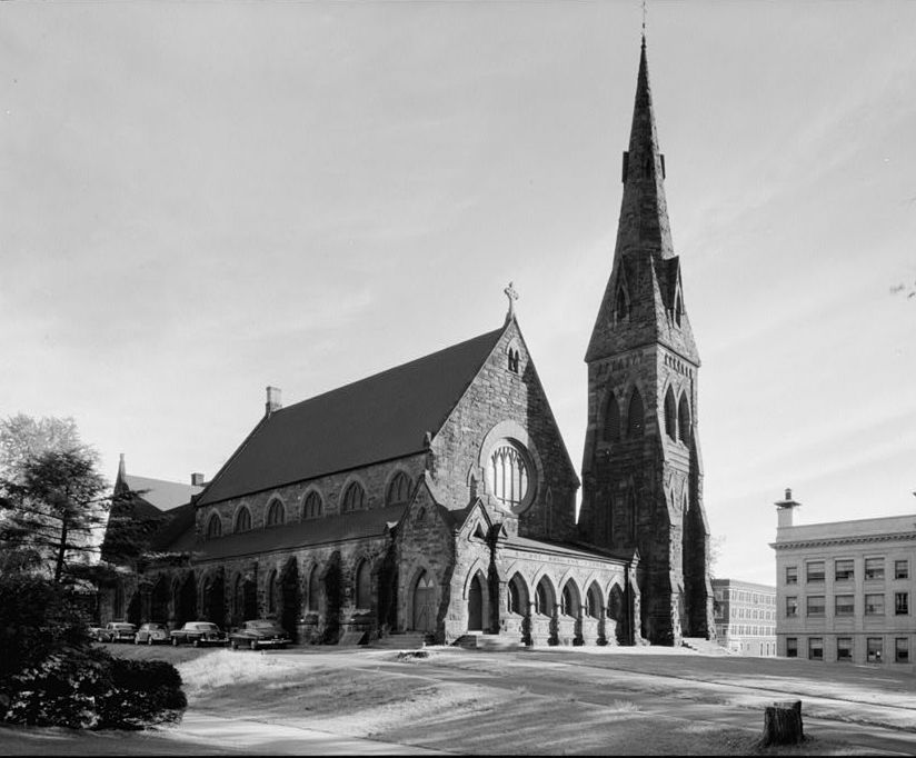 Church of the Unity, 207 State Street, Springfield, Massachusetts (1867), Henry Hobson Richardson, architect.